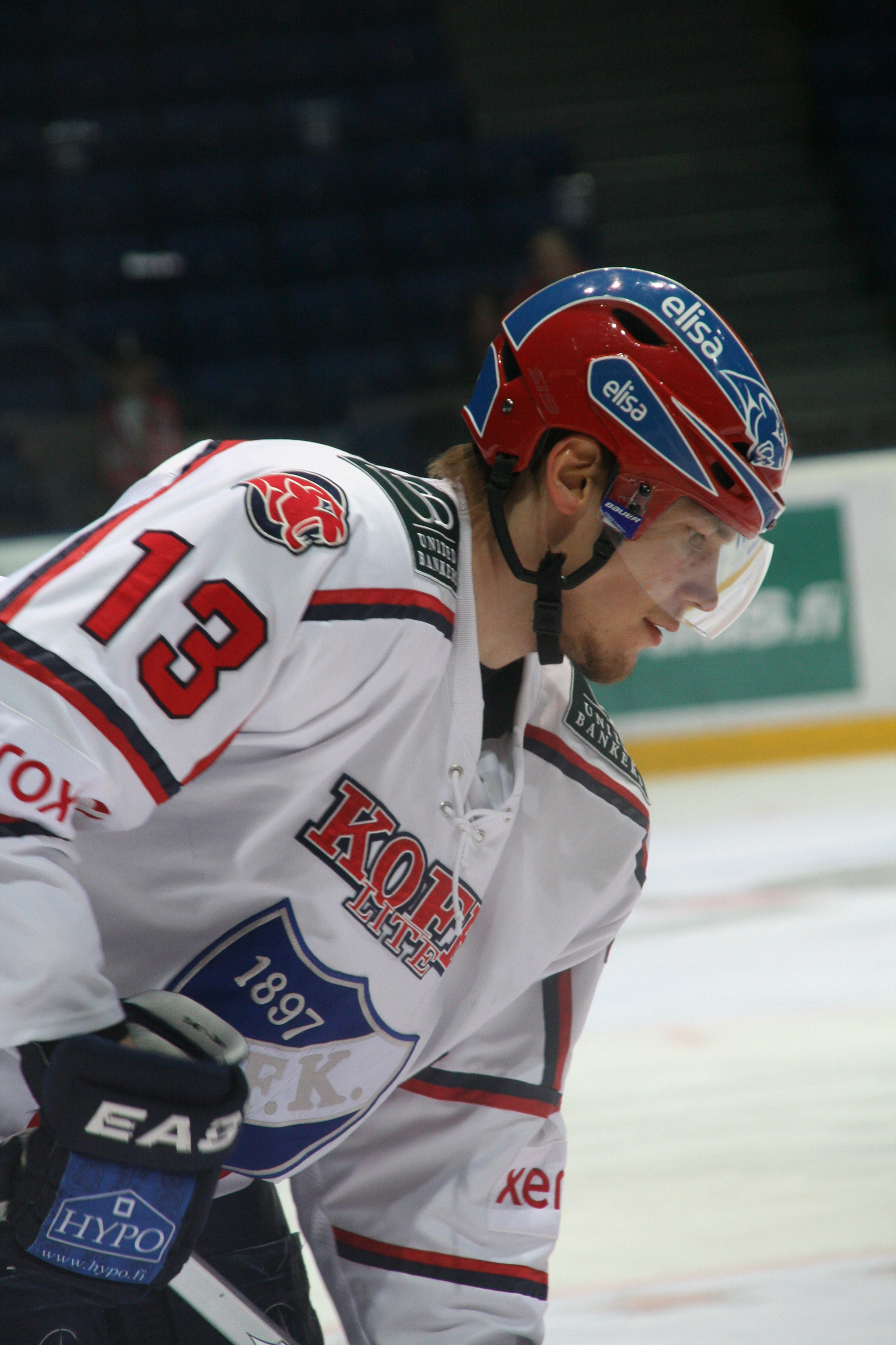 Ice Hockey Team Helsinki IFK's Attacker #13 Petteri Wirtanen